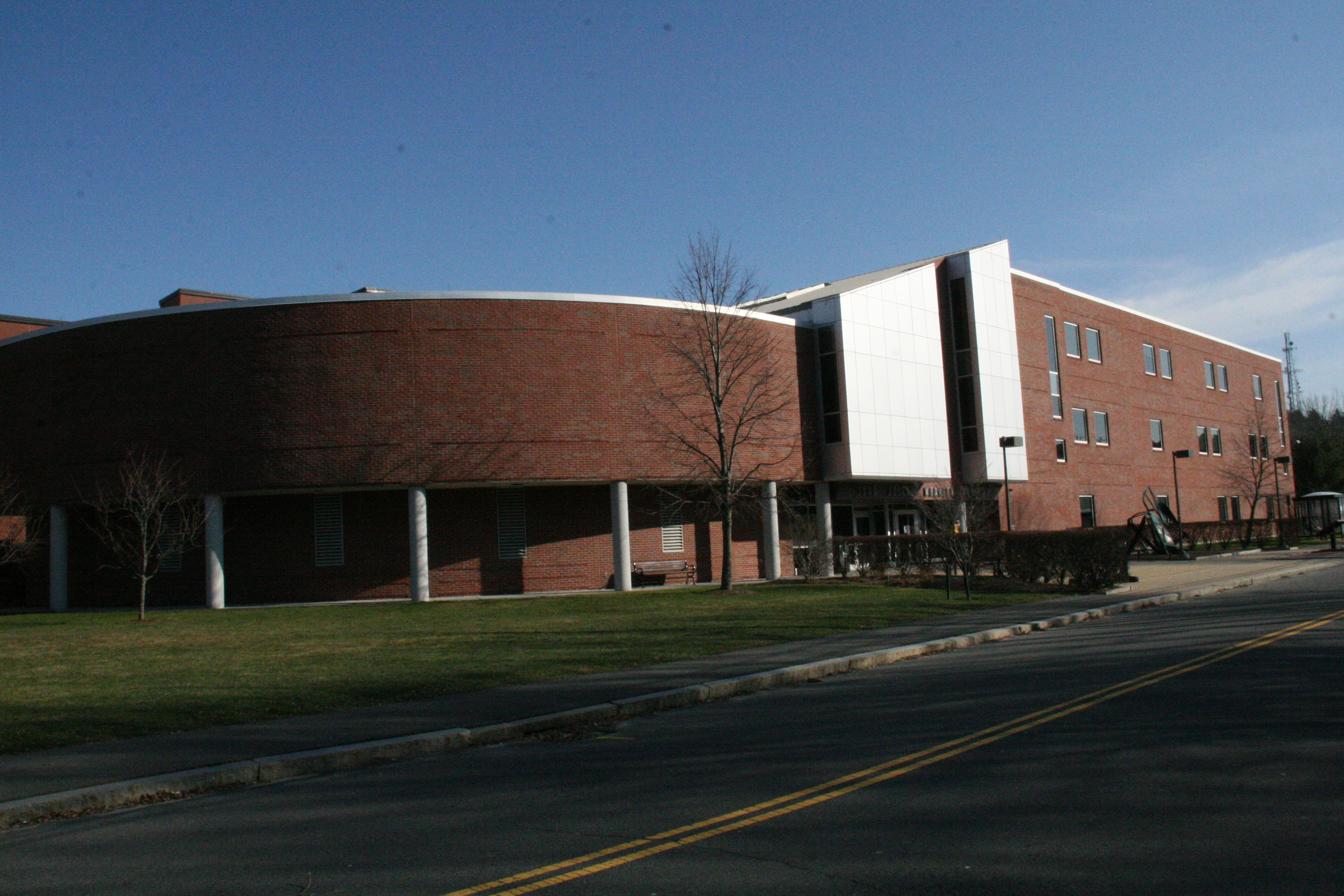 Bridgewater University 100 Burrill Ave. Bridgewater Ma.